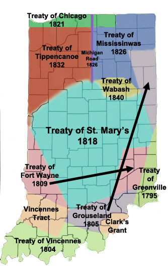 A map of Indiana showing the areas purchased, dates, and the name of the treaties. The land was purchased from Native Americans (American Indians) Treaties by William Henry Harrison, Thomas Posey, Jonathan Jennings, George Rogers Clark. Created by modifiying a map image on the commons